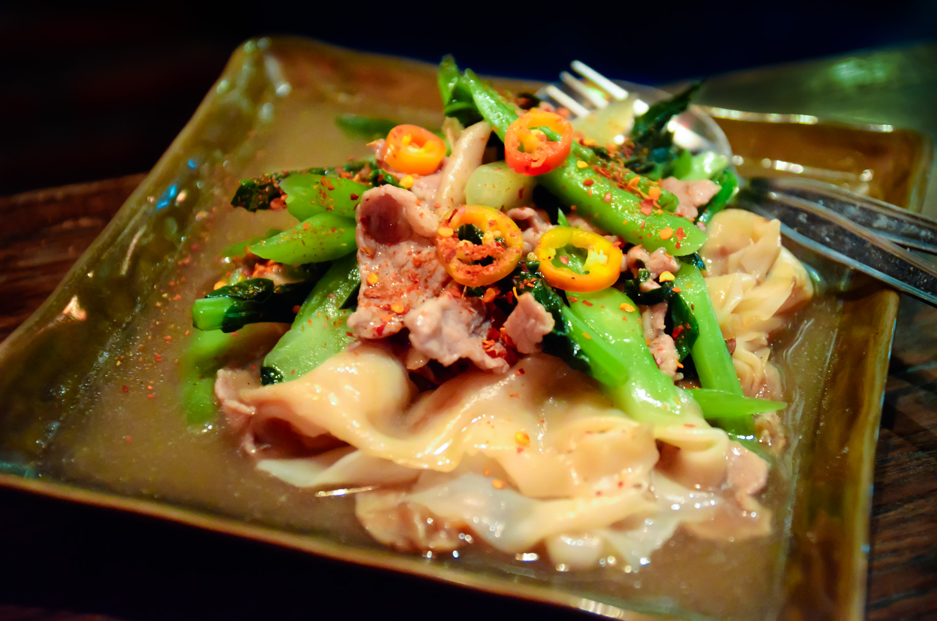 Kuai-tiao rat na (Thai script: ราดหน้า): Stir-fried broad rice noodles (the Chinese shahe fen) served with stir-fried vegetables and meat or seafood in a thick gravy made from stock (pork, chicken or vegetable) and oyster sauce and which has been thickened with, for instance, corn starch. In Thailand people often sprinkle some additional sugar, fish sauce, sliced chillies preserved in vinegar (with some of the vinegar), and ground dried chillies on the dish. This version is with pork and pak kana (Chinese broccoli).